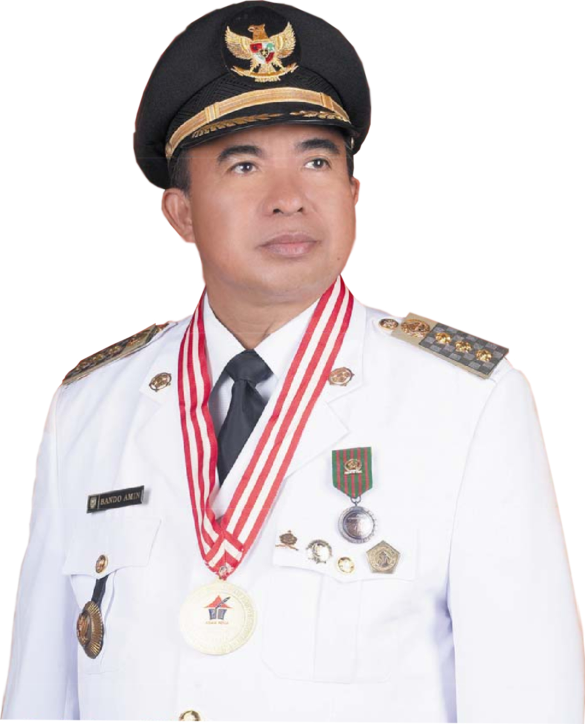 Major of Regency of Kepahiang, Province of Bengkulu, Sumatra, Indonesia